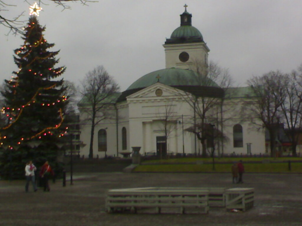 Hämeenlinna Church in Hämeenlinna, Finland